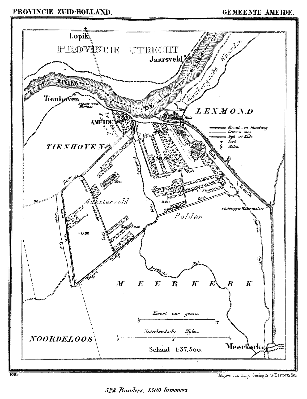 Historic map of Ameide (now part of municipality Zederik), South Holland, the Netherlands